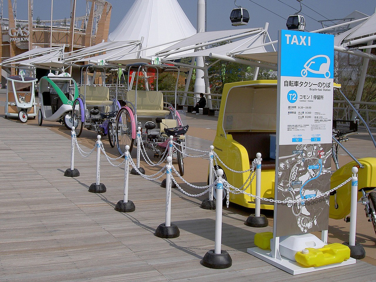 EXPO 2005 Bicycle taxi